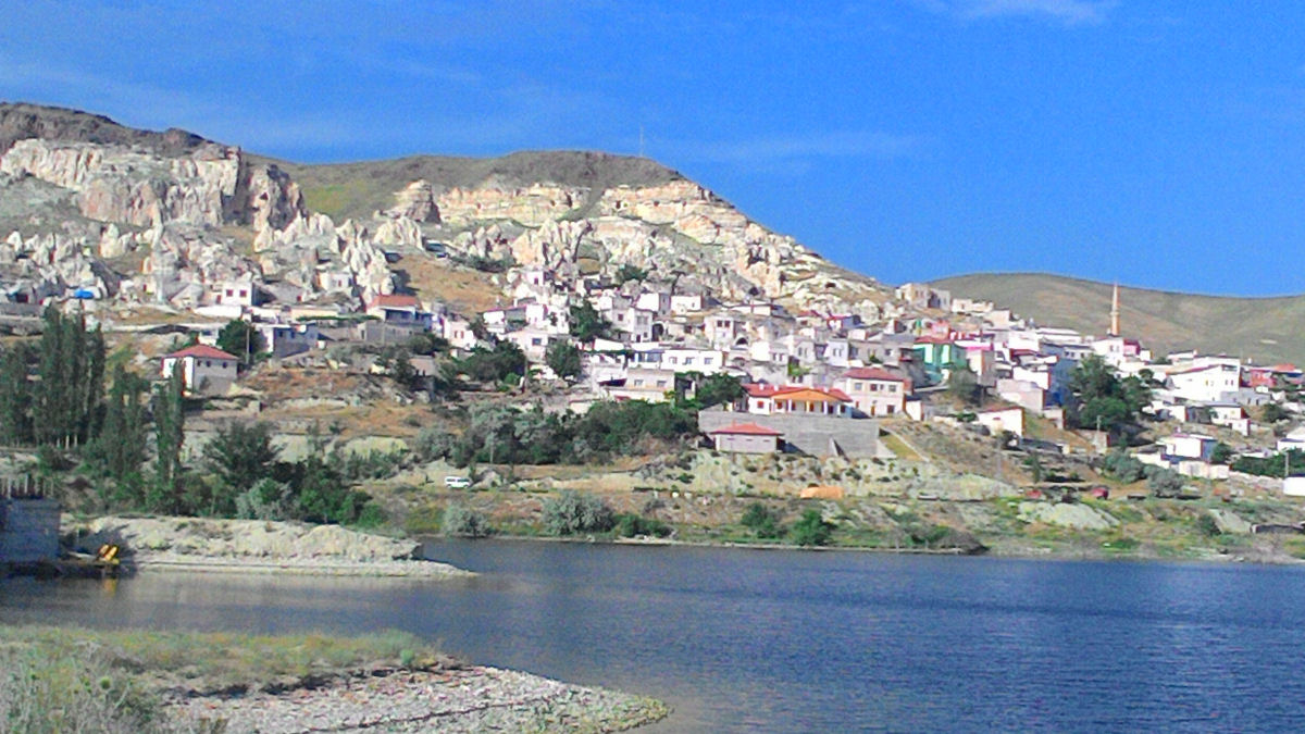 Bayramhacı